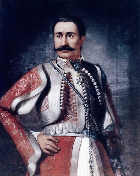 Ioannis (Yiannakis) Stratos (1793 - 1848) - Greek Fighter of the 1821 Ιωάννης Στράτος